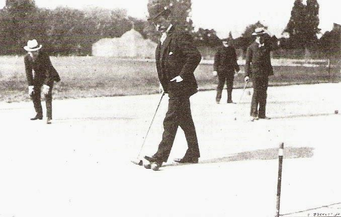 Crocket match at the 1900 Olympic Games photography, reproduction, no restrictions on use